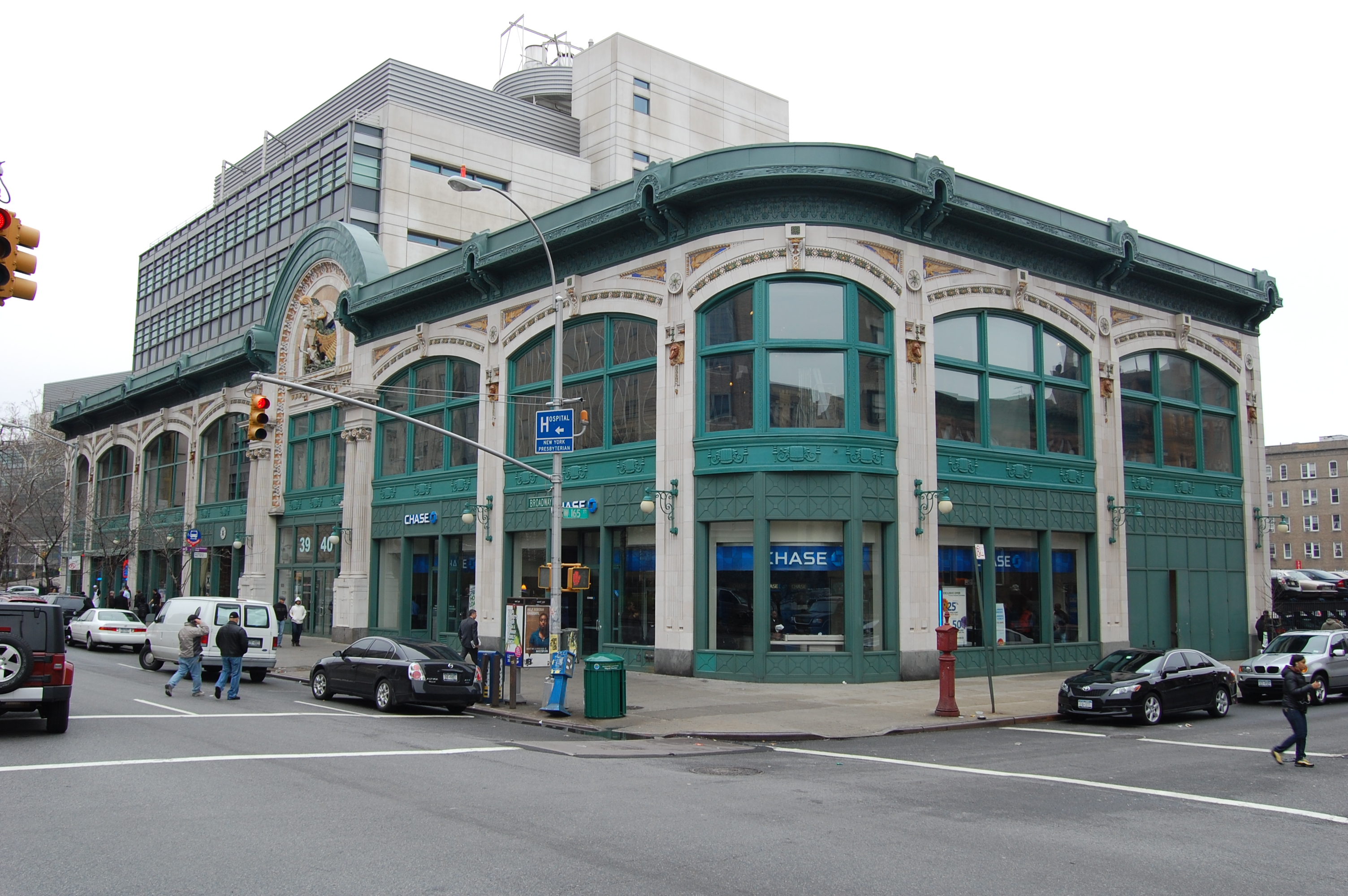 This photo is of Wikipedia Takes Manhattan location code 2, Audubon Ballroom.